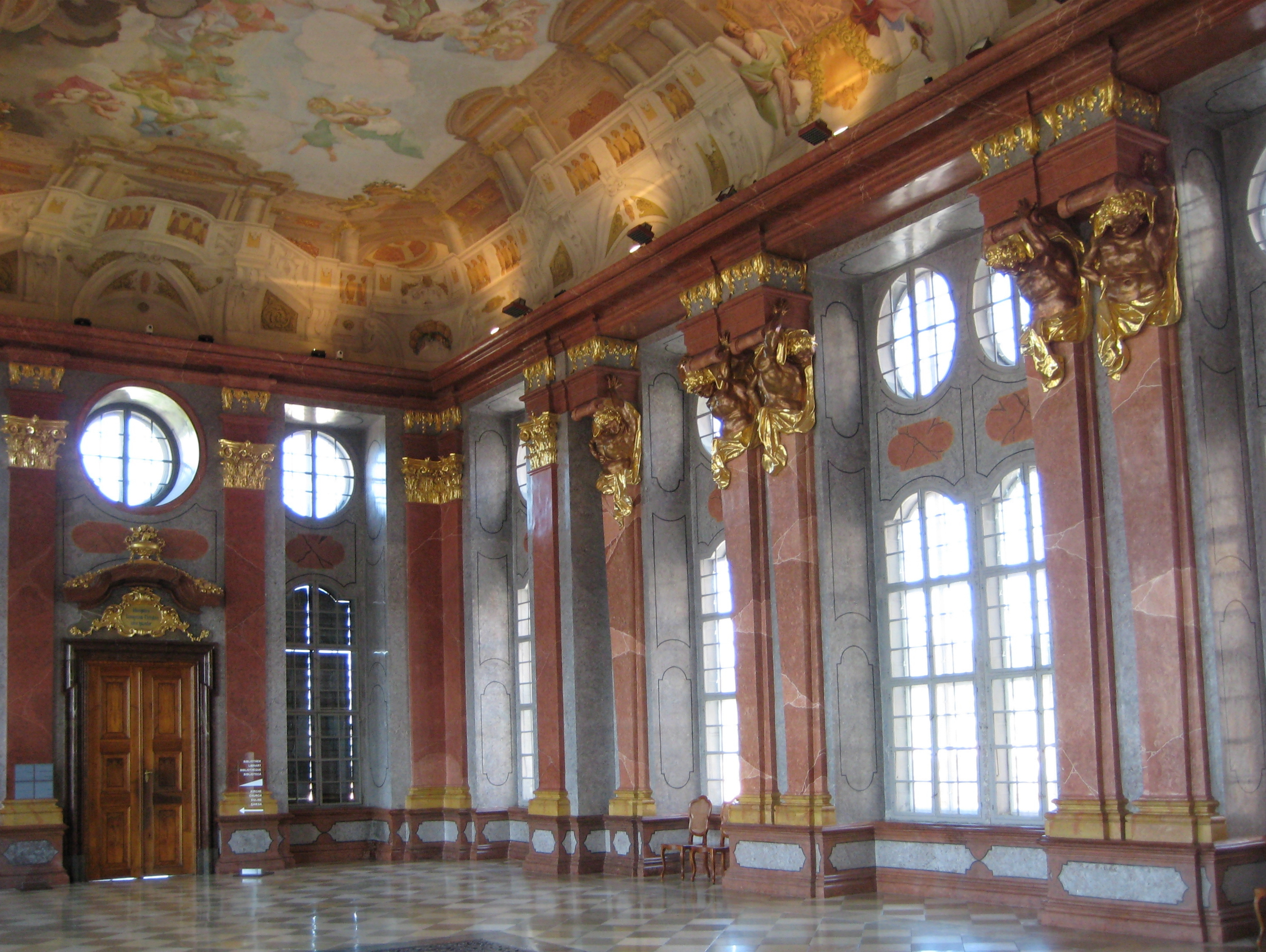 Melk Abbey, Lower Austria, marble hall